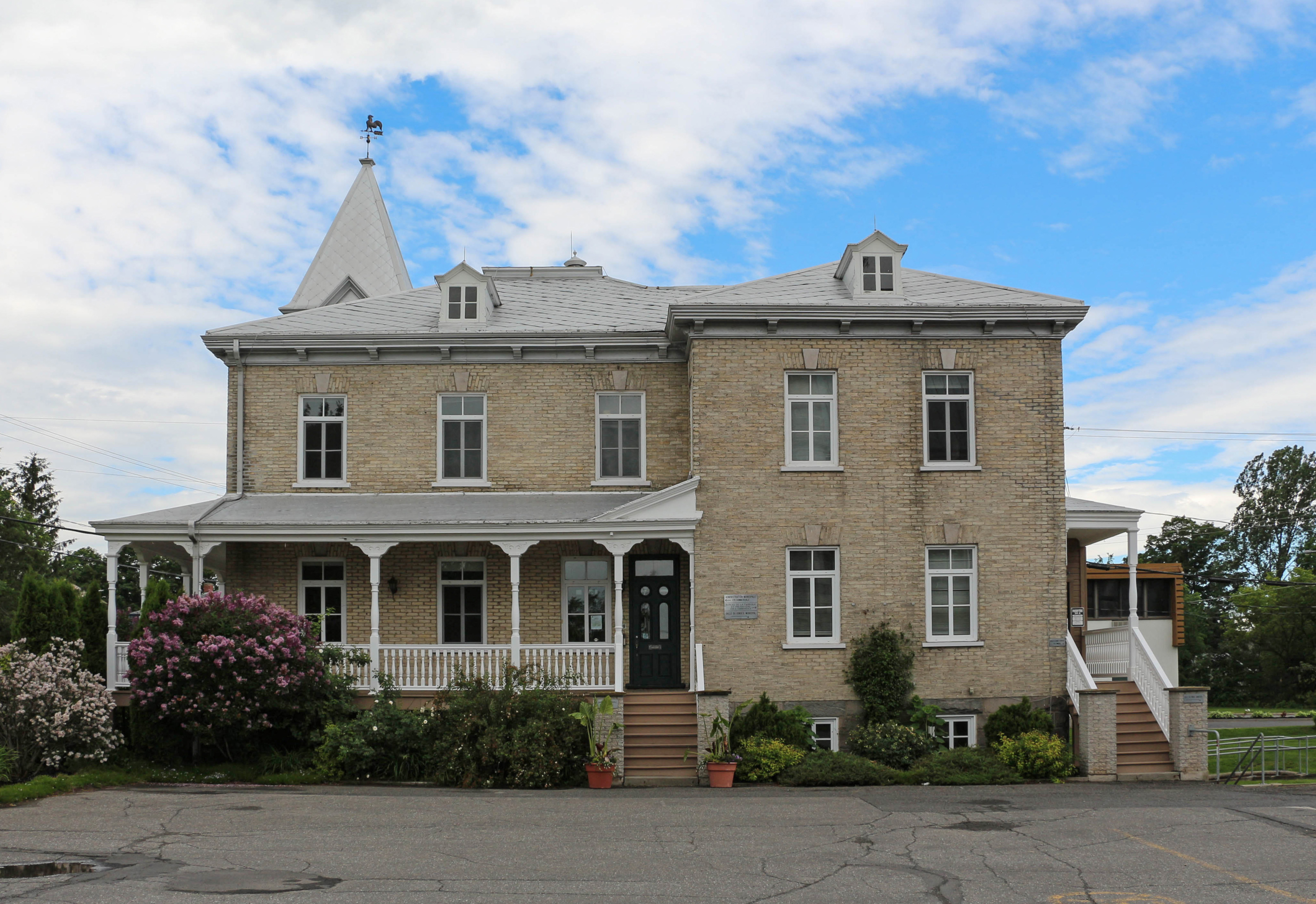 Rectories of Saint-Henri, Saint-Henri, Quebec, Canada